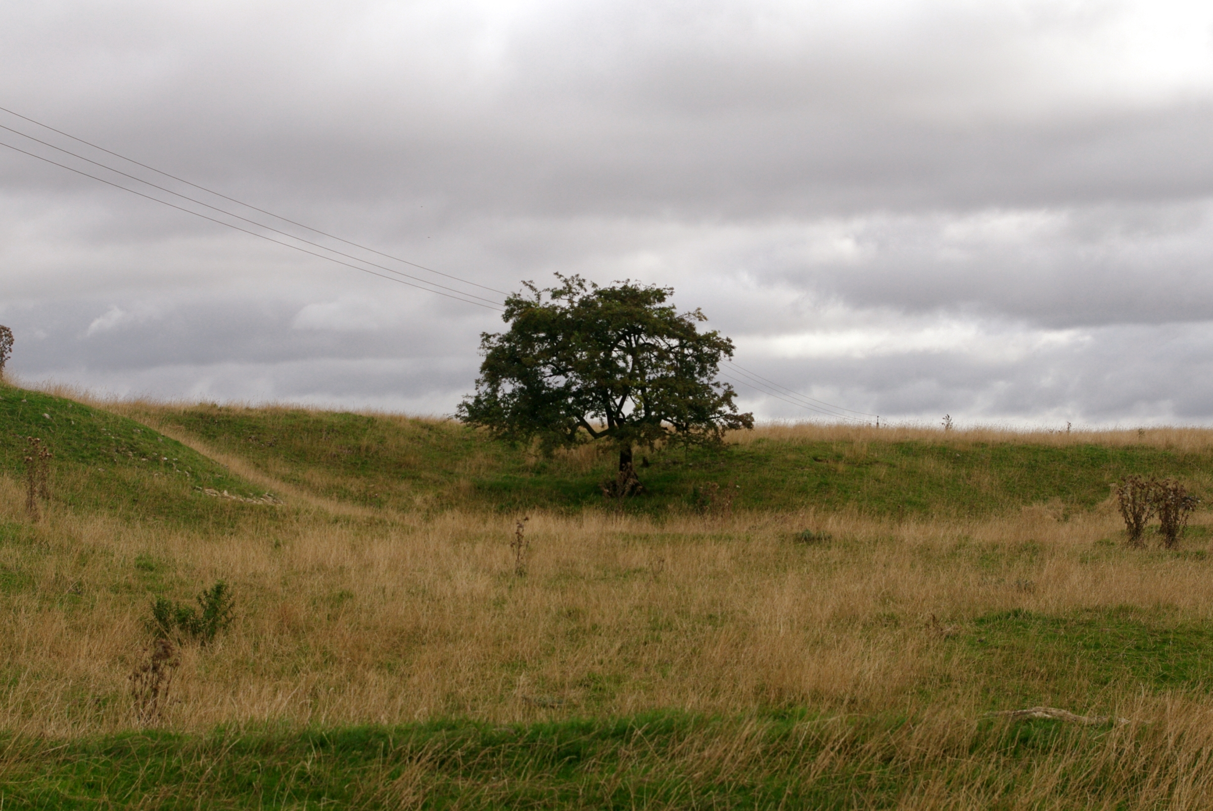 Old quarry in lost medieval village between Helmsley and Riveaulx, North York Moors